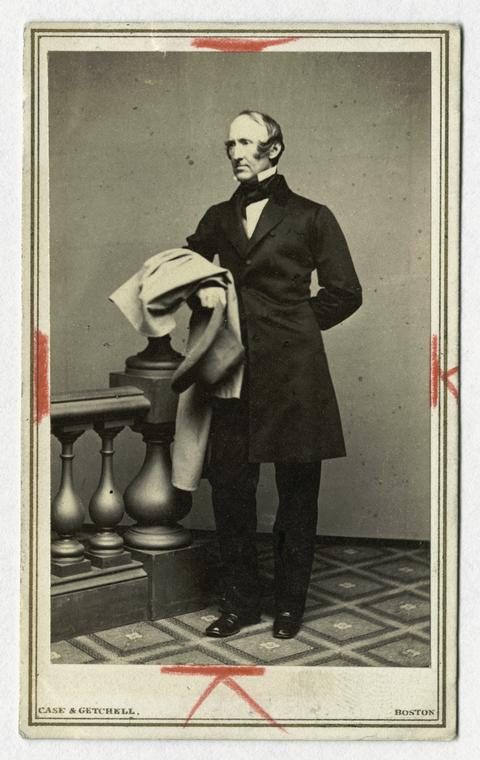 American abolitionist Wendell Phillips (1811-1884) from a carte de visite.